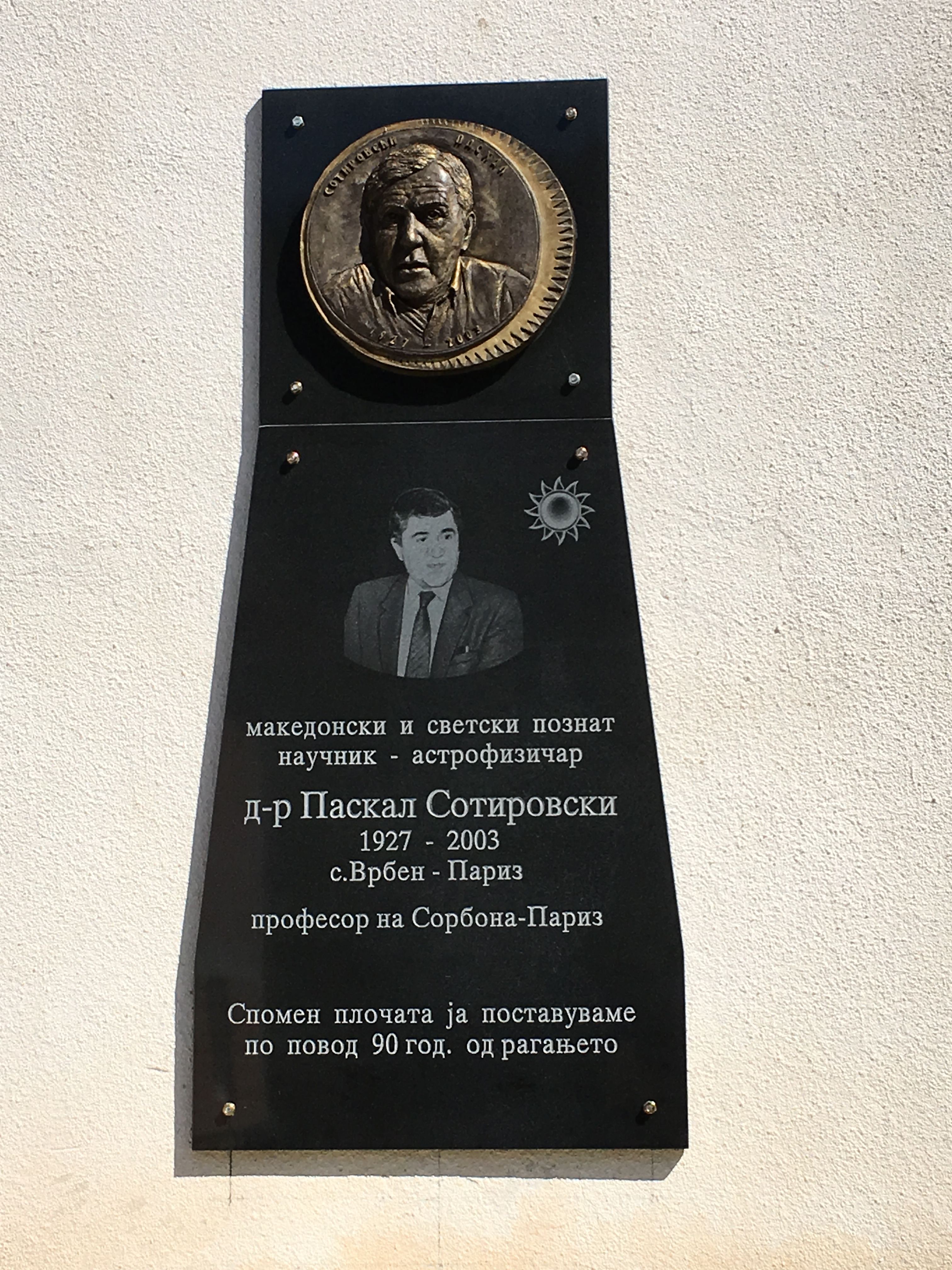 Commemorative plaque dedicated to the astrophysicist Paskal Sotirovski (1927-2003) in the village of Vrben